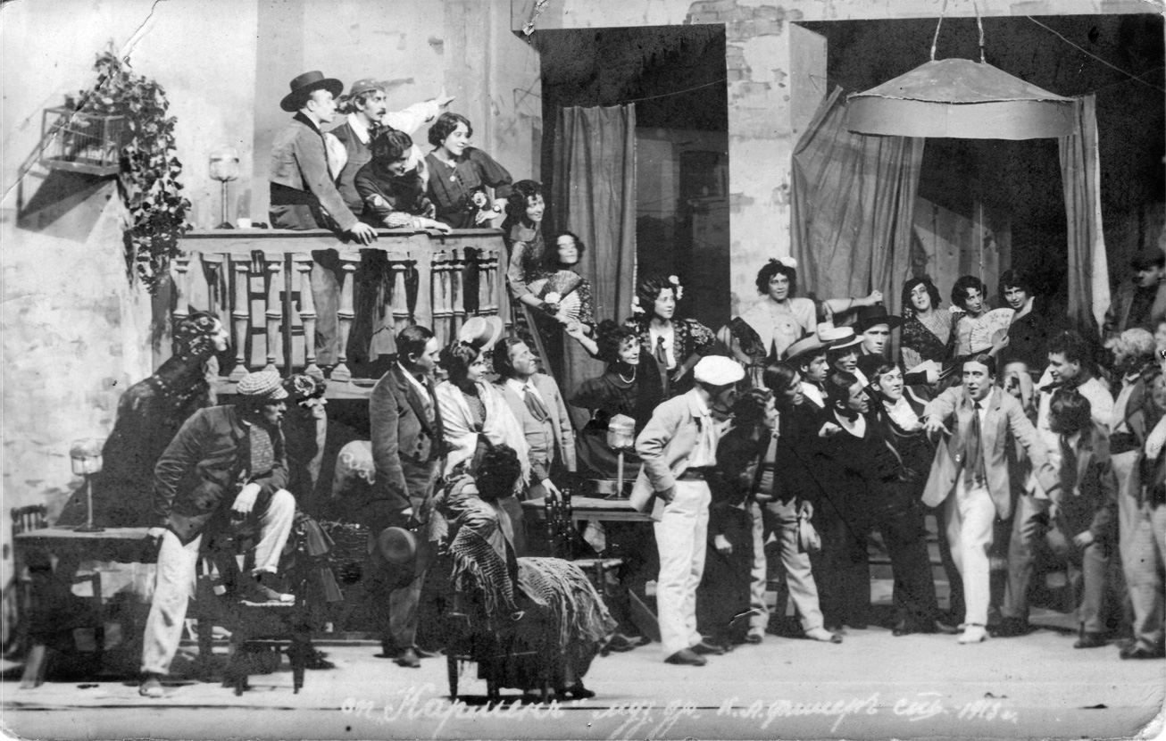 Carmen at Theater of Musical Drama. Victoria Ivanovna Russet (mother of Zoya Rozhdestvenskaya) is in black dress side by side with the girl with white hand fan (at right).